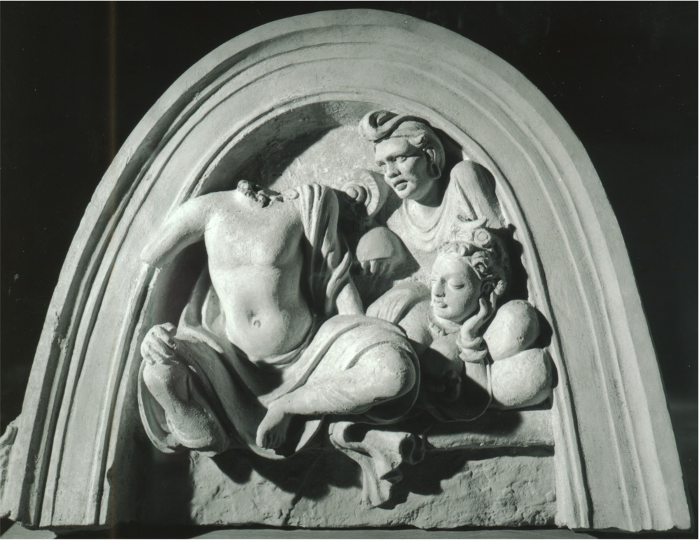 . Unrestricted use give by UNESCO through the following page: Hadda. The Bodhisattva receives his headgear from his squire Chandrika, 5th century. Stucco. Photo UNESCO/ L.Hammerschmid